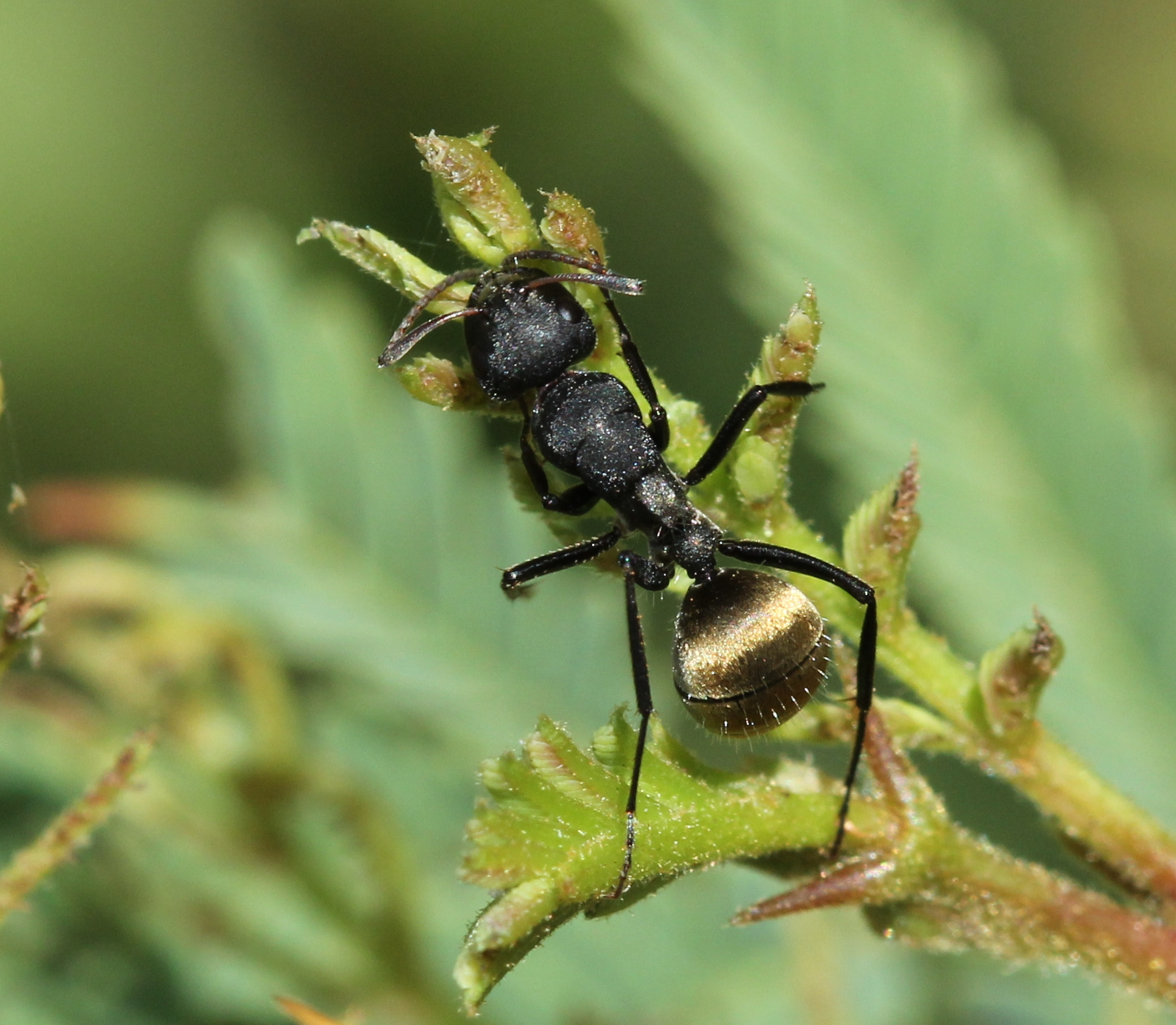 shot at Bangalore